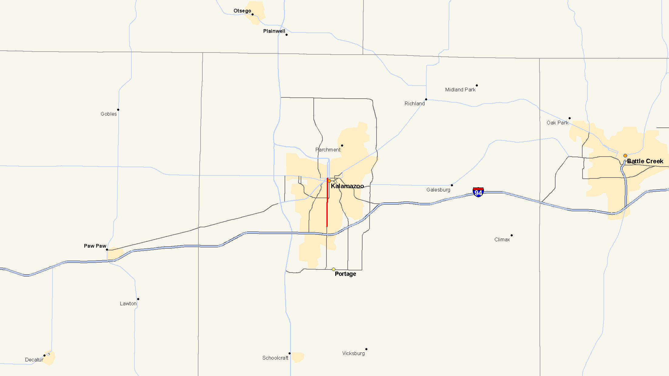 Map of M-331